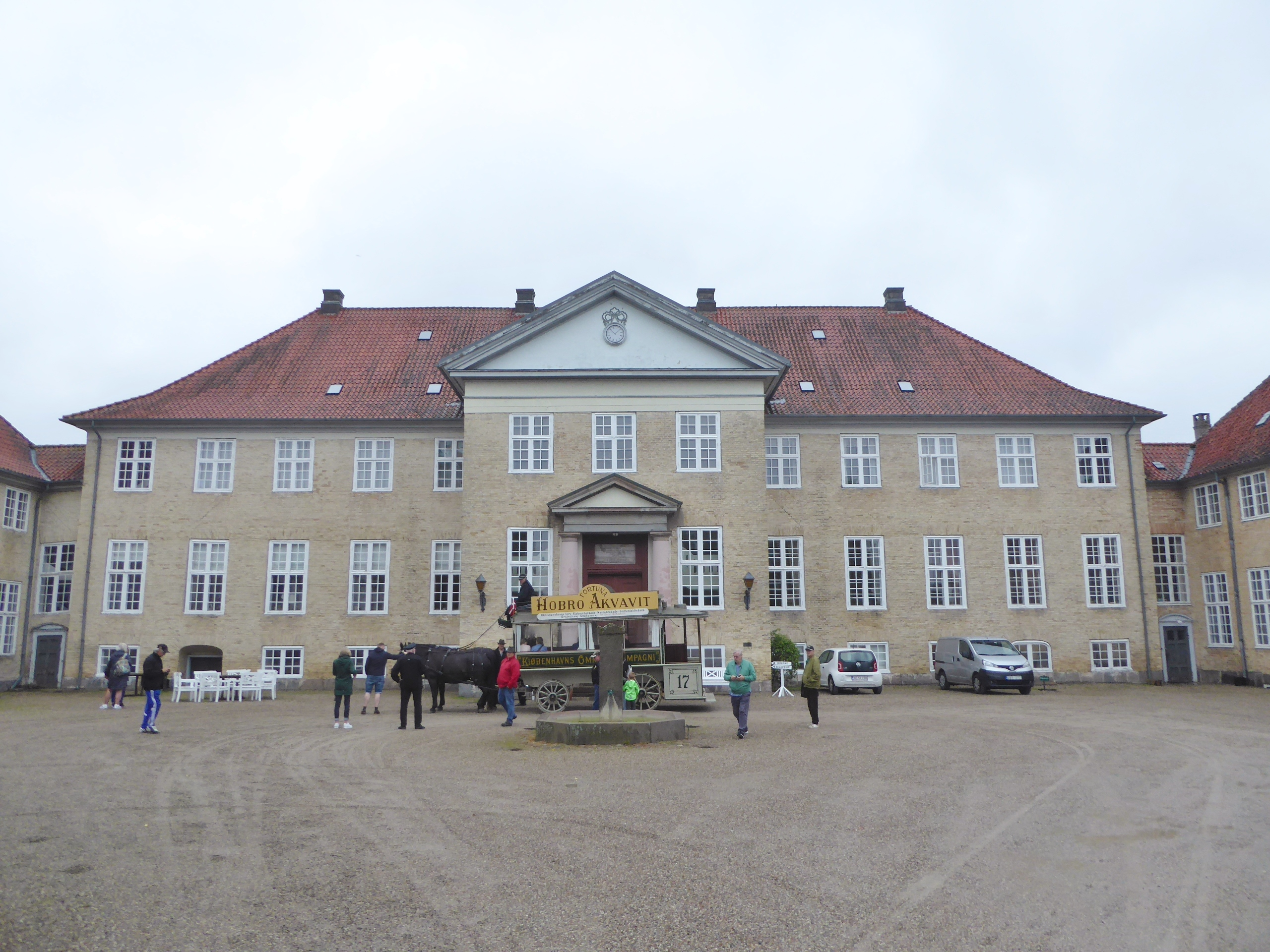 The horse-drawn bus KO 17 from 1897 from Copenhagen at the main building of the estate Skjoldenæsholm. The bus belongs to Sporvejsmuseet Skjoldenæsholm which provides trips with it to the estate and back on certain days.